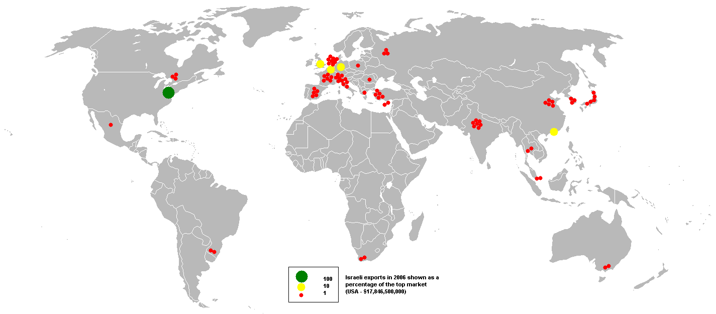 This bubble map shows the global distribution of Israeli exports in 2006 as a percentage of the top market (USA - $17,846,500,000). This map is consistent with incomplete set of data too as long as the top producer is known. It resolves the accessibility issues faced by colour-coded maps that may not be properly rendered in old computer screens. Data was extracted on 17th September 2007 from Based on :Image:BlankMap-World.png